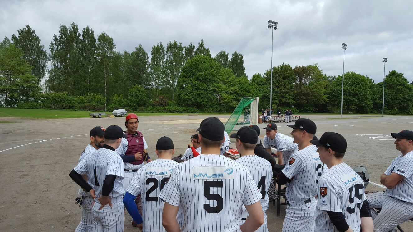 Manager meeting before a game